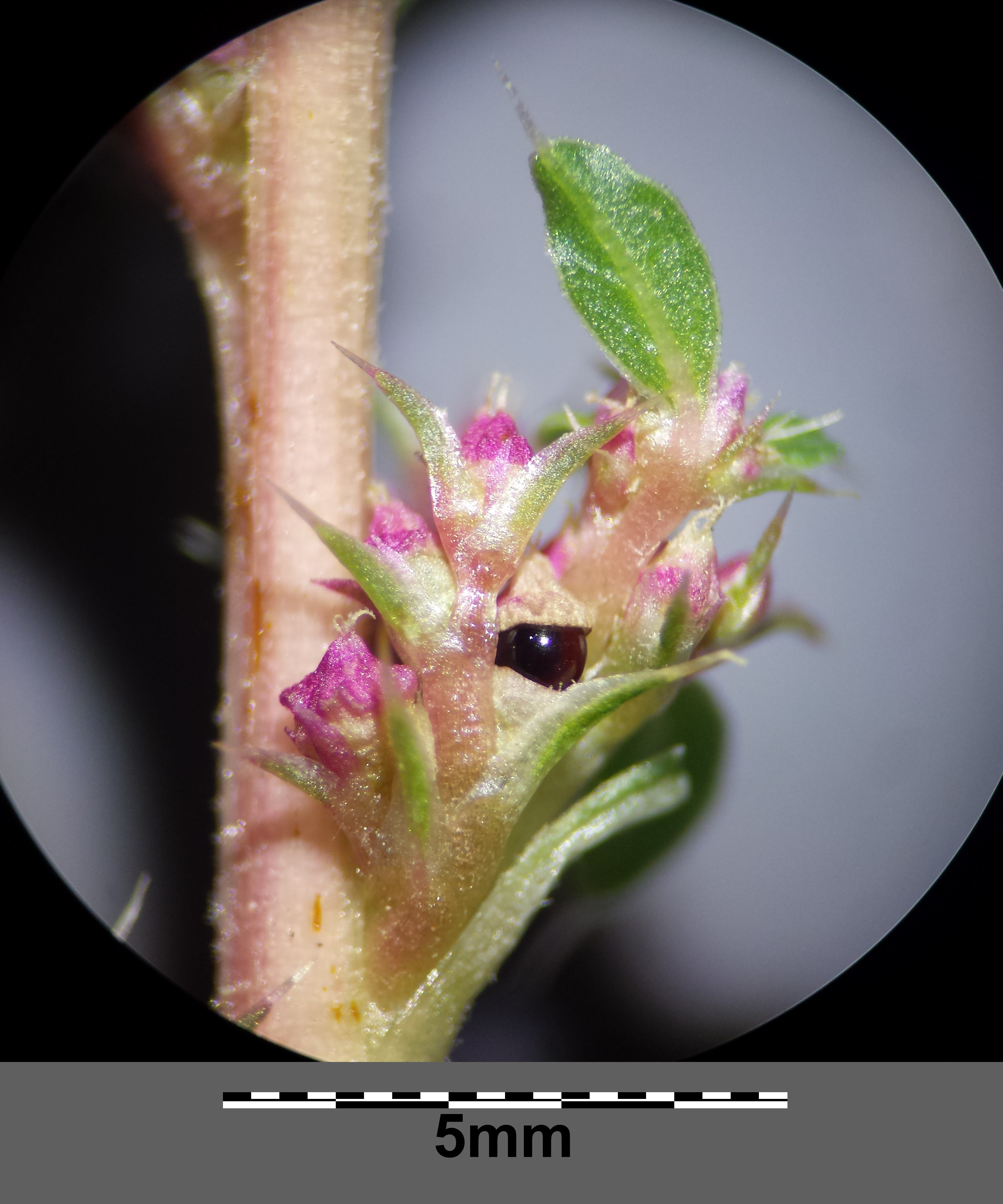 Infructescence Taxonym: Amaranthus albus ss Fischer et al. EfÖLS 2008 ISBN 978-3-85474-187-9 Location: Floridsdorf rail station, Vienna-Floridsdorf - ca. 160 m a.s.l. Habitat: ruderal area